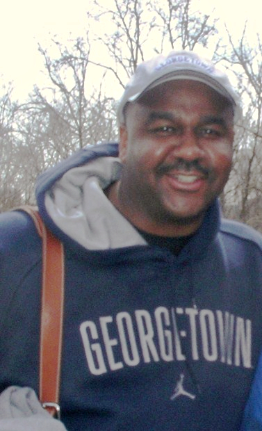 John Thompson III, coach of the Georgetown Hoyas, outside McDounough Gym following his return to campus after defeating UNC to reach the 2007 Final Four.